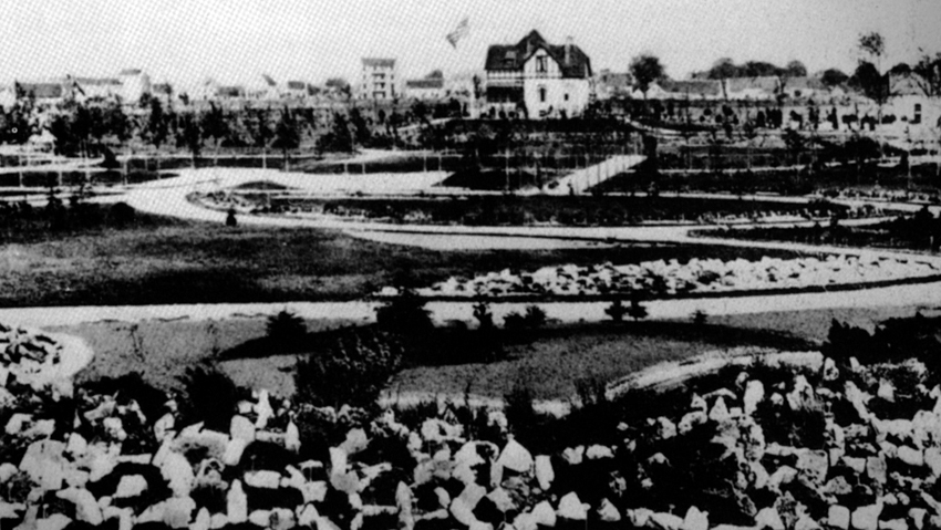 The first Botanical Gaden in Bremen, Germany, founded by Franz Schütte, located at the Hastedter Osterdeich, in the year 1906.